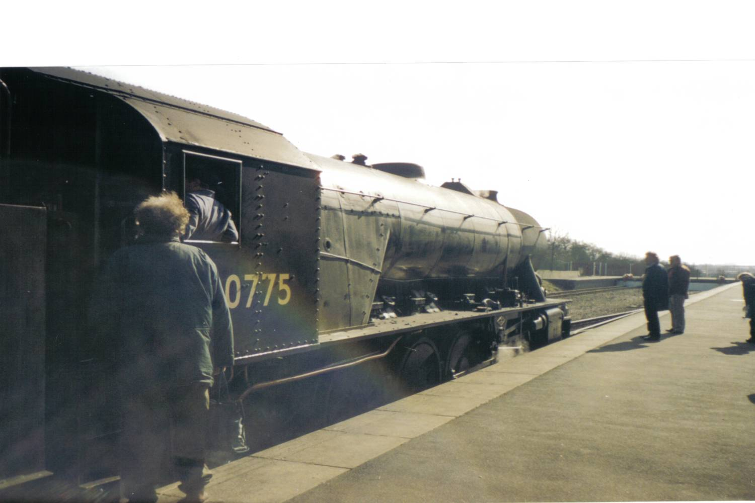 Photo taken by me, 2003-03